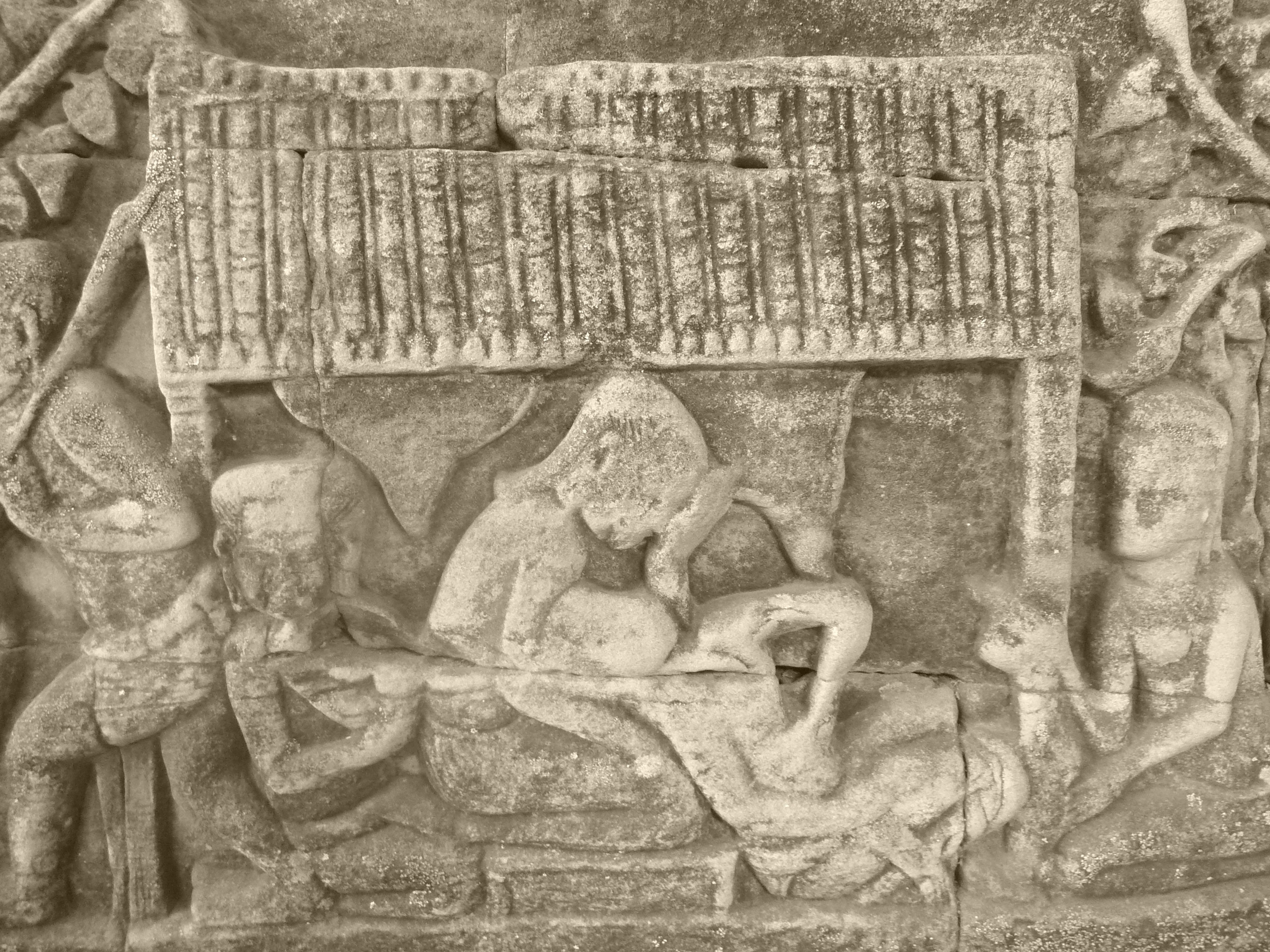 057 Childbirth at Bayon Photograph from the Bayon Temple at Angkor in Cambodia taken by Anandajoti.